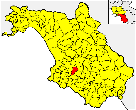 Locator map of the municipality of Orria (red) within the Province of Salerno